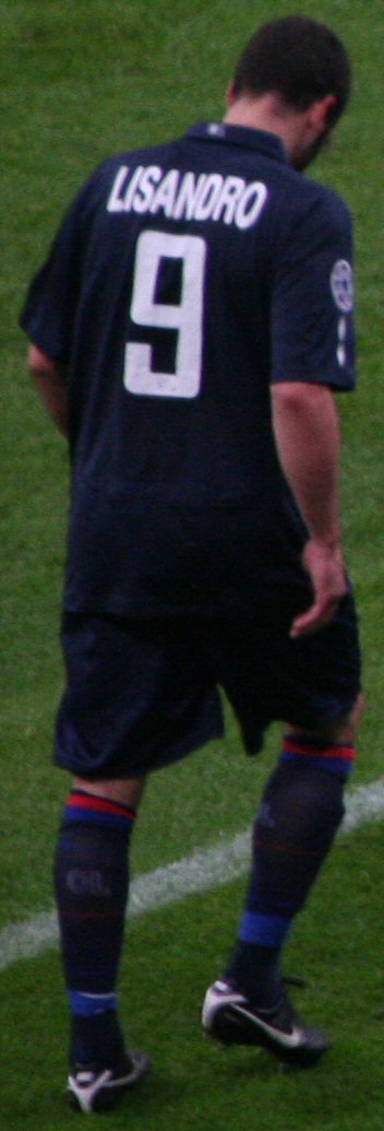 Lisandro Lopez during der Champions League match FC Bayern Munich vs. Olympique Lyonnais